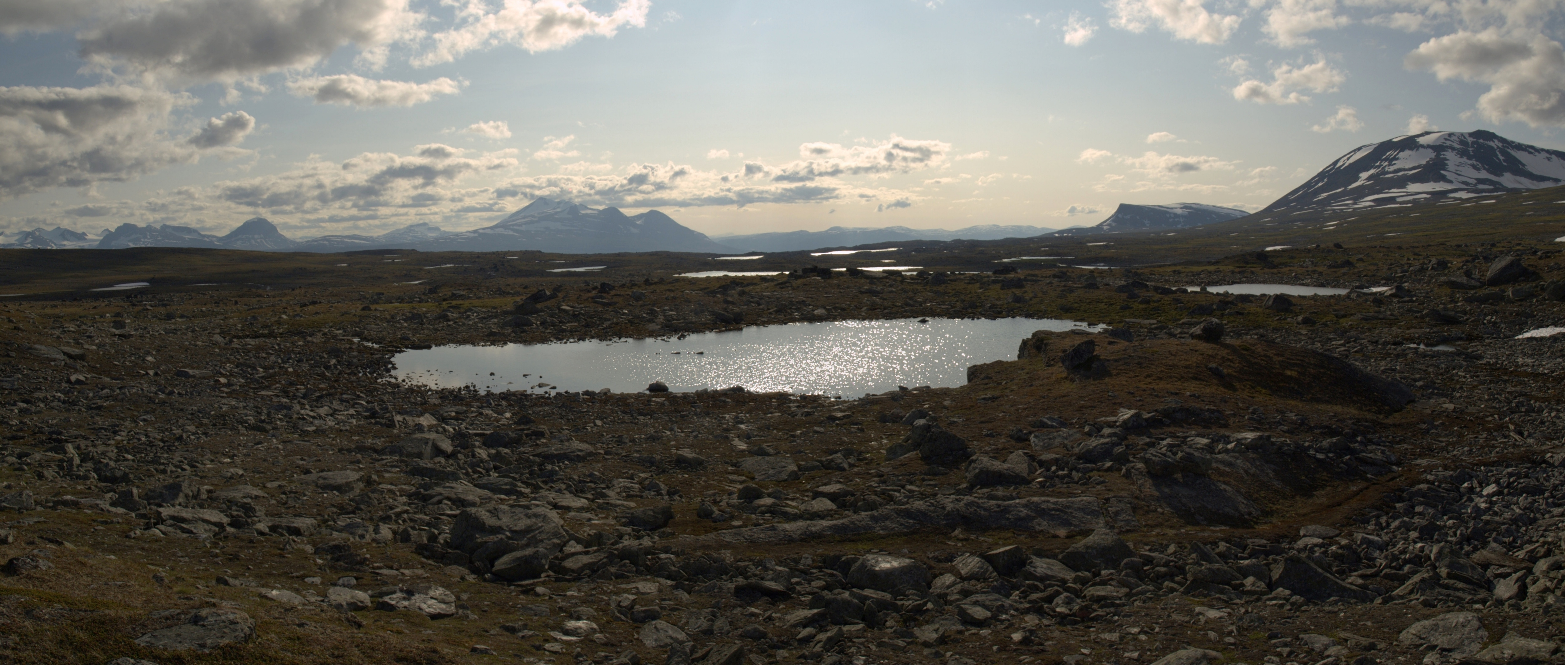 Maukojaureh high plateau north-east of Ahkka Massif in Sarek. Image captured in a north-westwards direction. Merged by Autostitch.